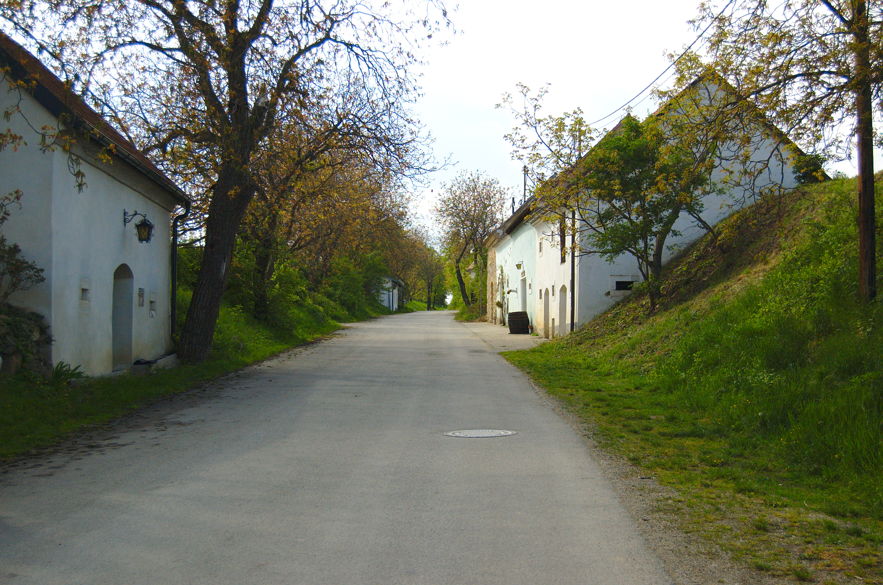 Uphill view of the Kellergasse in Eggenburg-Stoitzendorf.